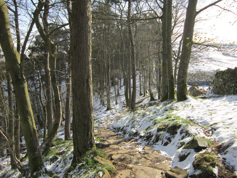 Walking towards turret 38A. Uploader's note: the original uploader to Geograph accidentally located this image at the site of Turret 38B (grid reference NY76396785), which is not in a wooded location. It should have been placed at the site of Turret 38A (grid reference NY76876792) which is in a wooded location.